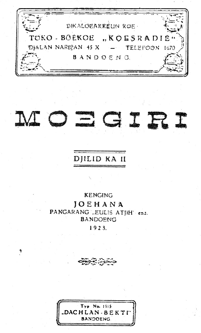 Cover for the novel Moegiri by Joehana